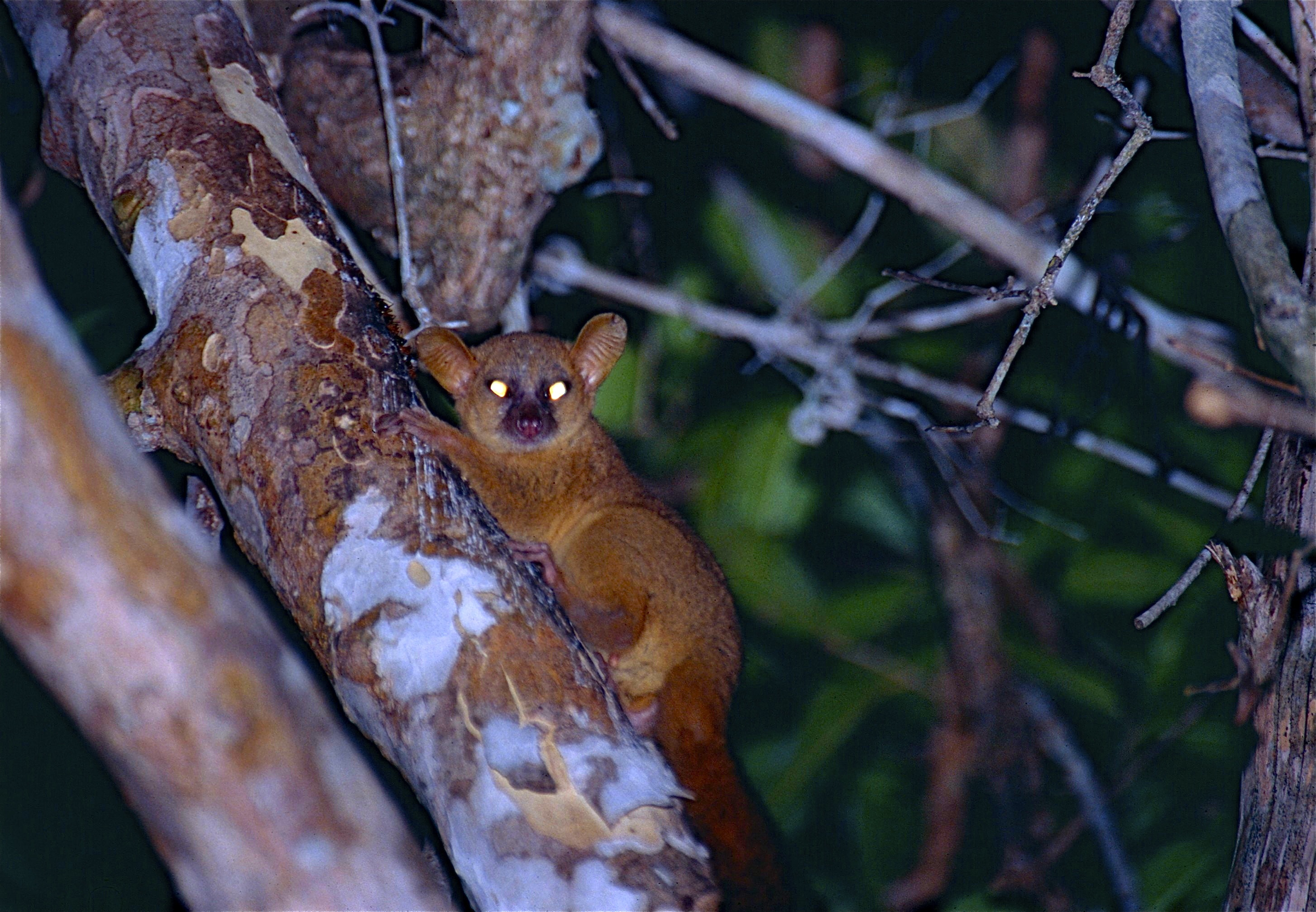 Kirindy Forest, MADAGASCAR Scanned Slide from 1998